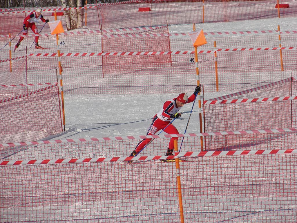 SportLabyrinth on Ski-O_WC 2007